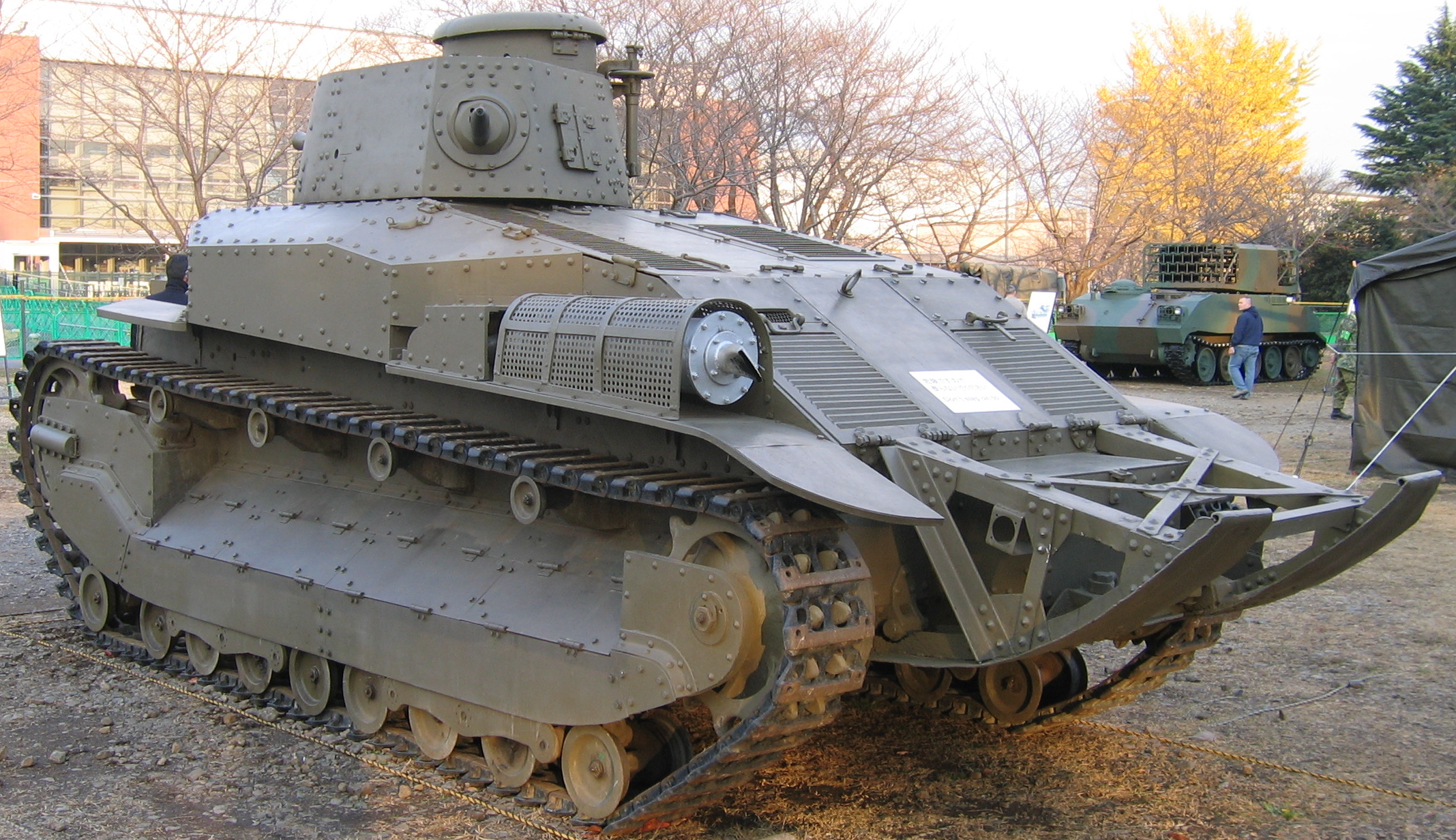 Left-rear view of a Type 89 at the Sinbudai Old Weapon Museum, Camp Asaka, Japan